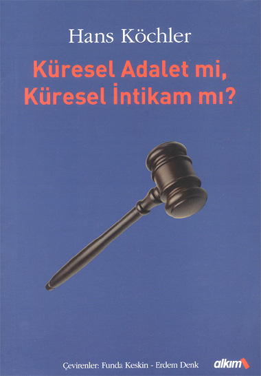 book cover of the Turkish edition of Hans Köchler's "Global Justice or Global Revenge?"